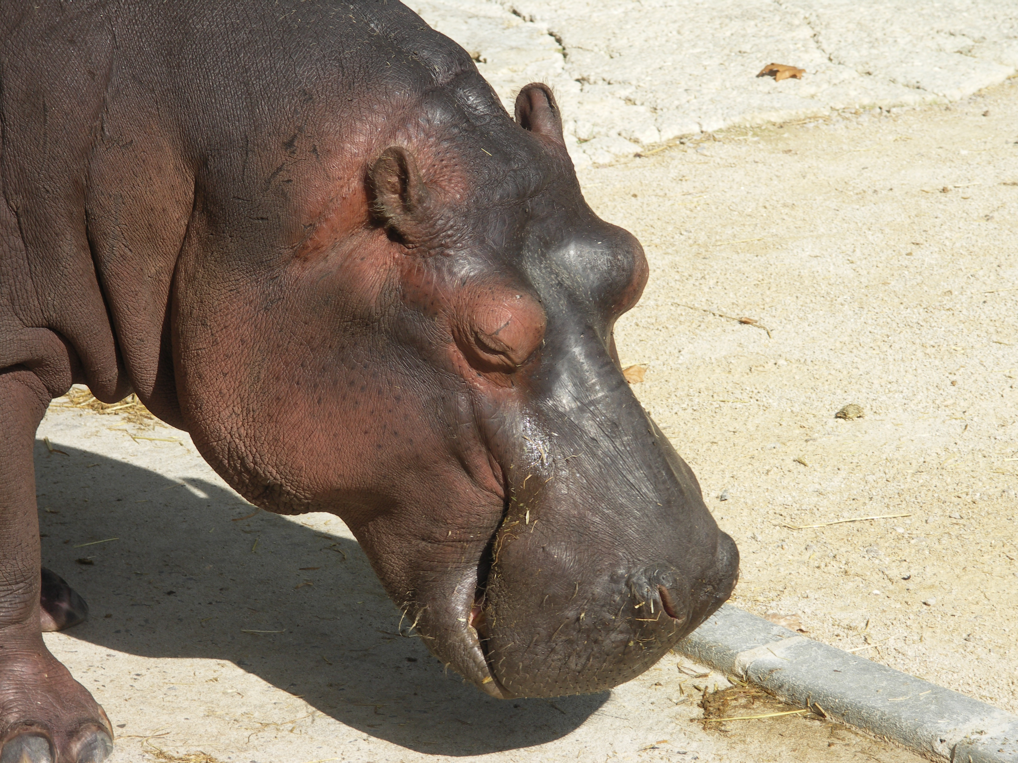 Gray hippopotamus at Lisbon zoo